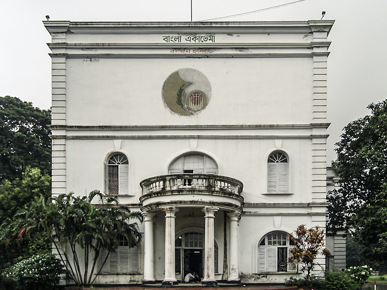 Burdwan House, also called Bordhoman House, is the headquarters of the Bangla Academy, in Dhaka, Bangladesh.